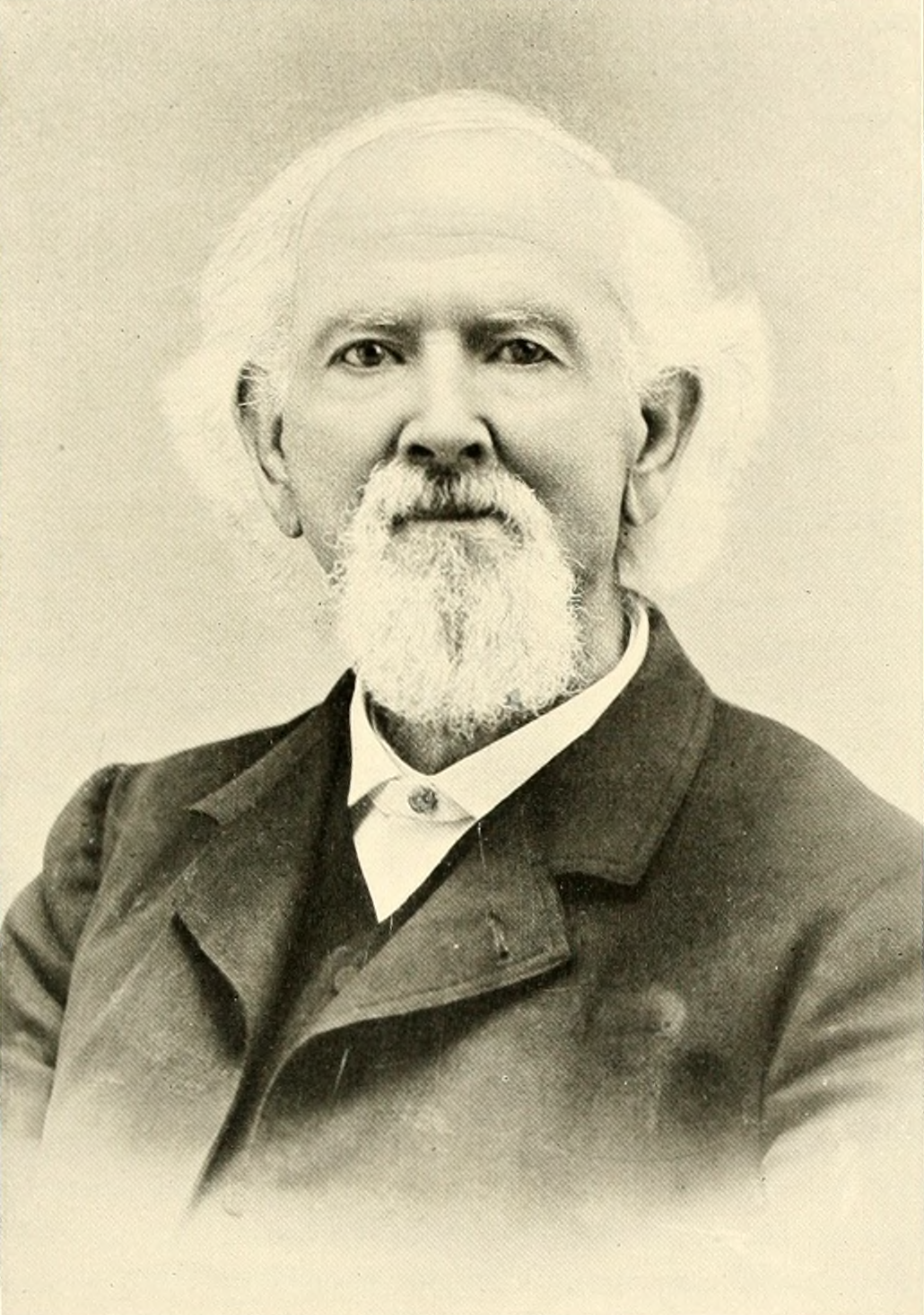 Image from Joseph Gaston's Centennial History of Oregon. Also published in Edward Gardner Jones' The Oregonian's Handbook of the Pacific Northwest (1894).